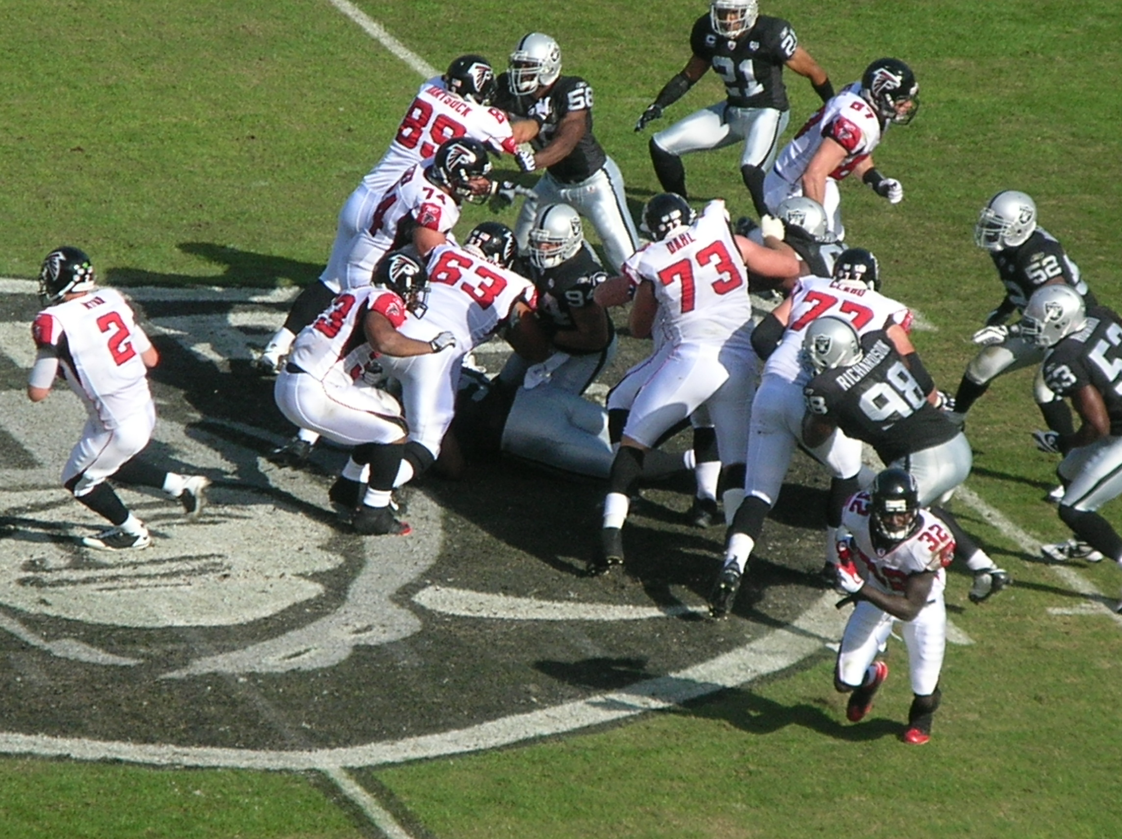 The Atlanta Falcons on offense at a road game against the Oakland Raiders. The Falcons won 24-0.